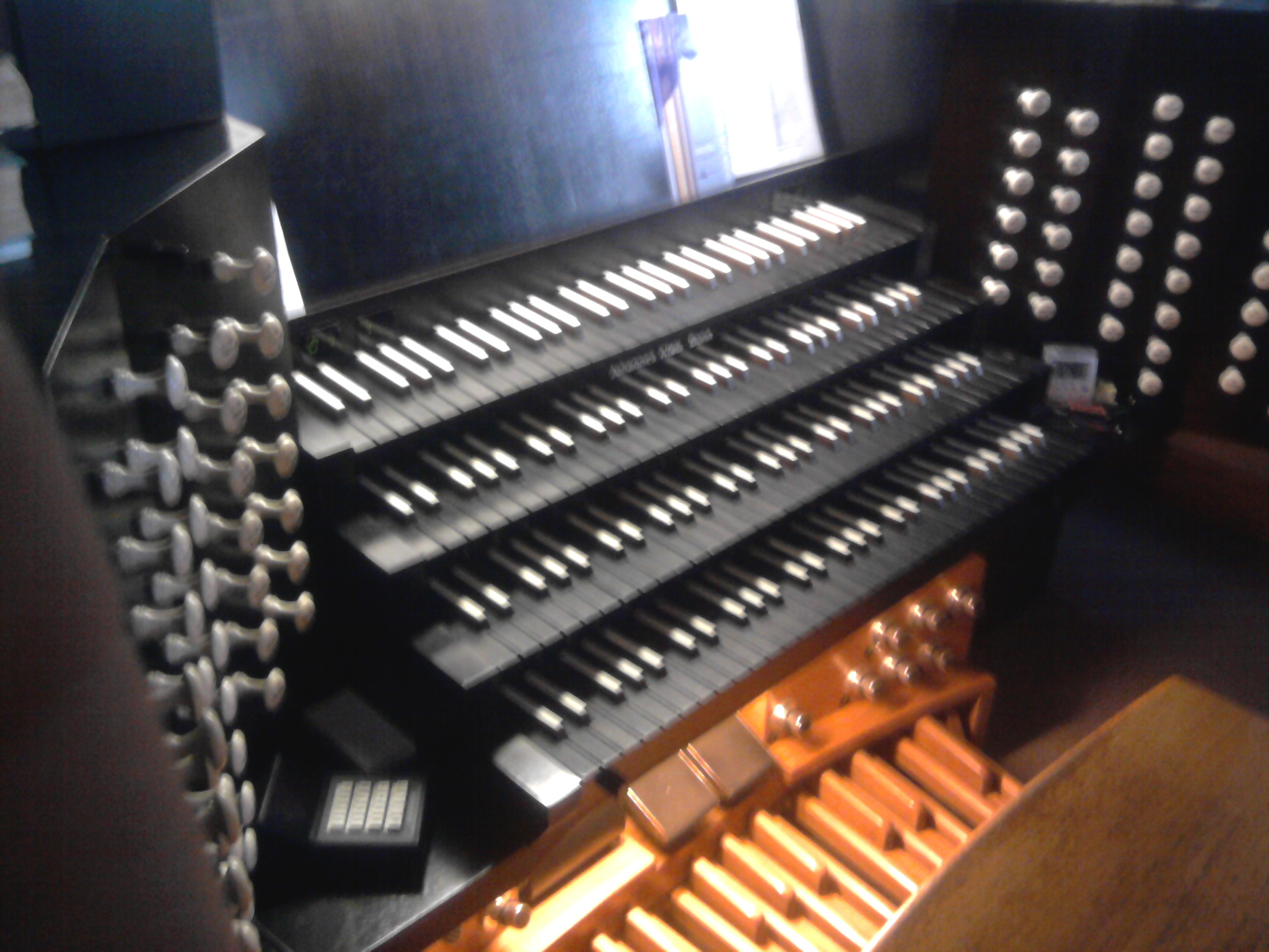 console of the organ at Trierer Dom